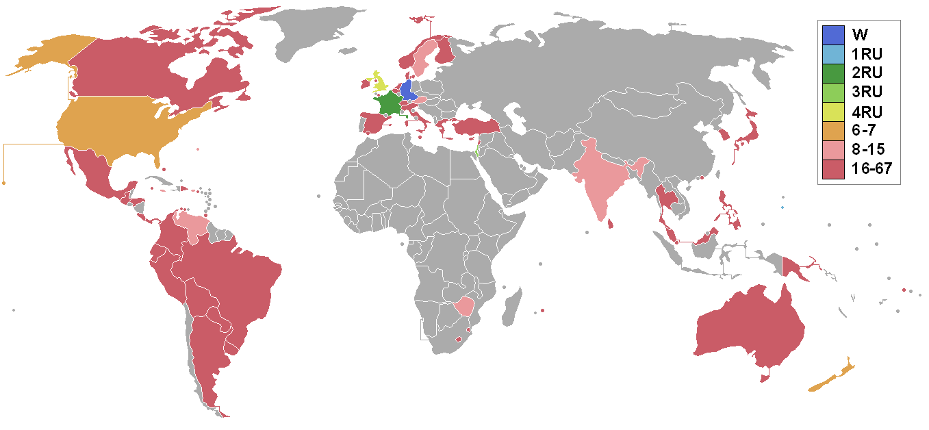 image created by Joey80